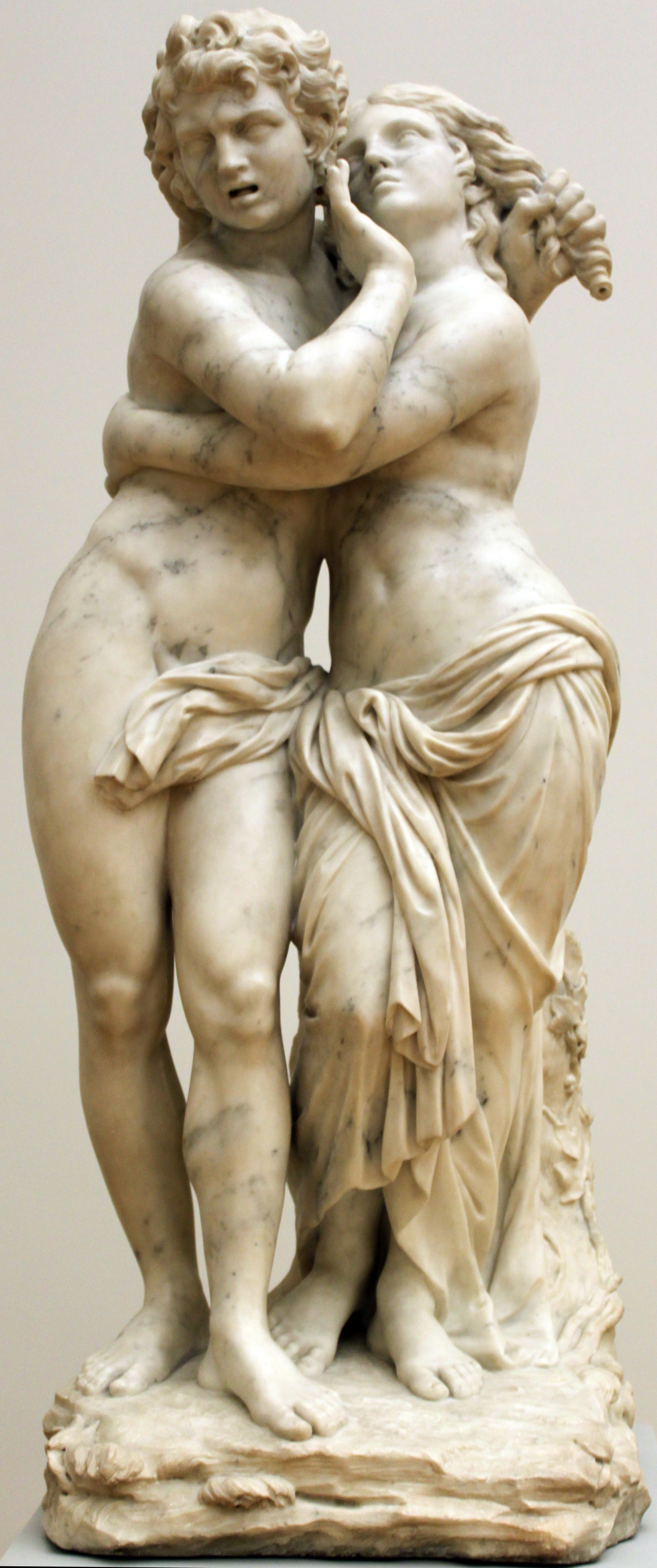 Laurent Delvaux (1696-1778): Biblis and Caunus, 1734; Bodemuseum Berlin, Skulpturensammlung Inv. 4/89